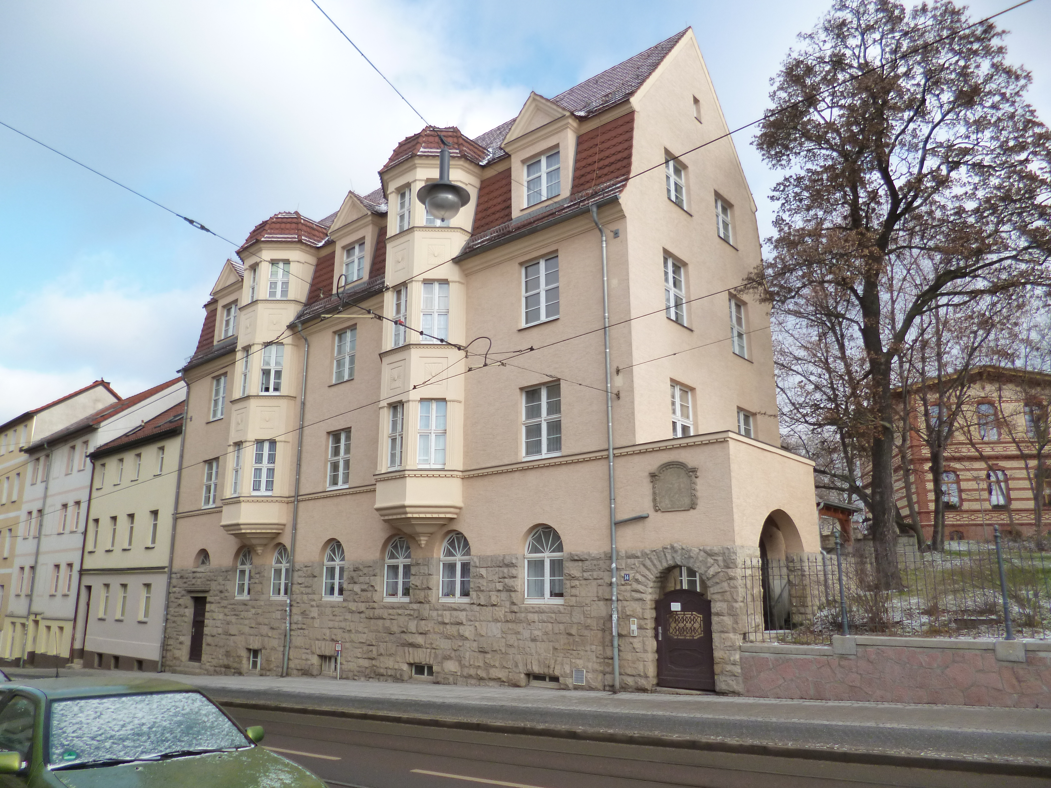 Beesener Straße No. 14, nursing home "Akazienhof", Halle (Saale)